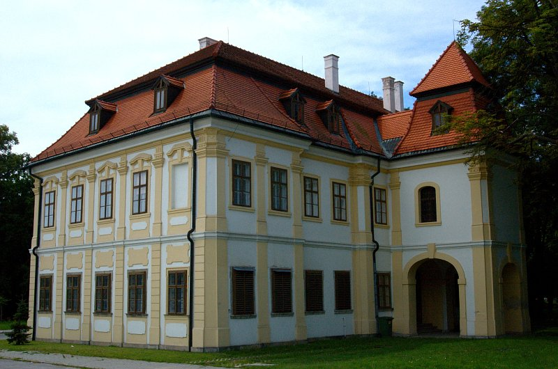 Manour house in Senica, now Záhorie gallery